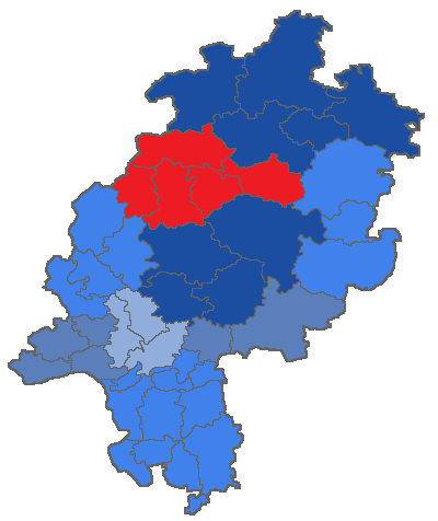 Map of the district court Marburg in Hesse